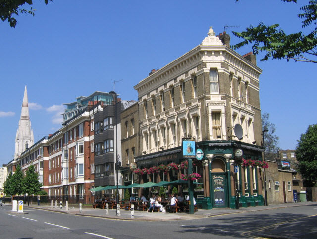 Pineapple Public House, Hercules Road. The church in the background is 18403